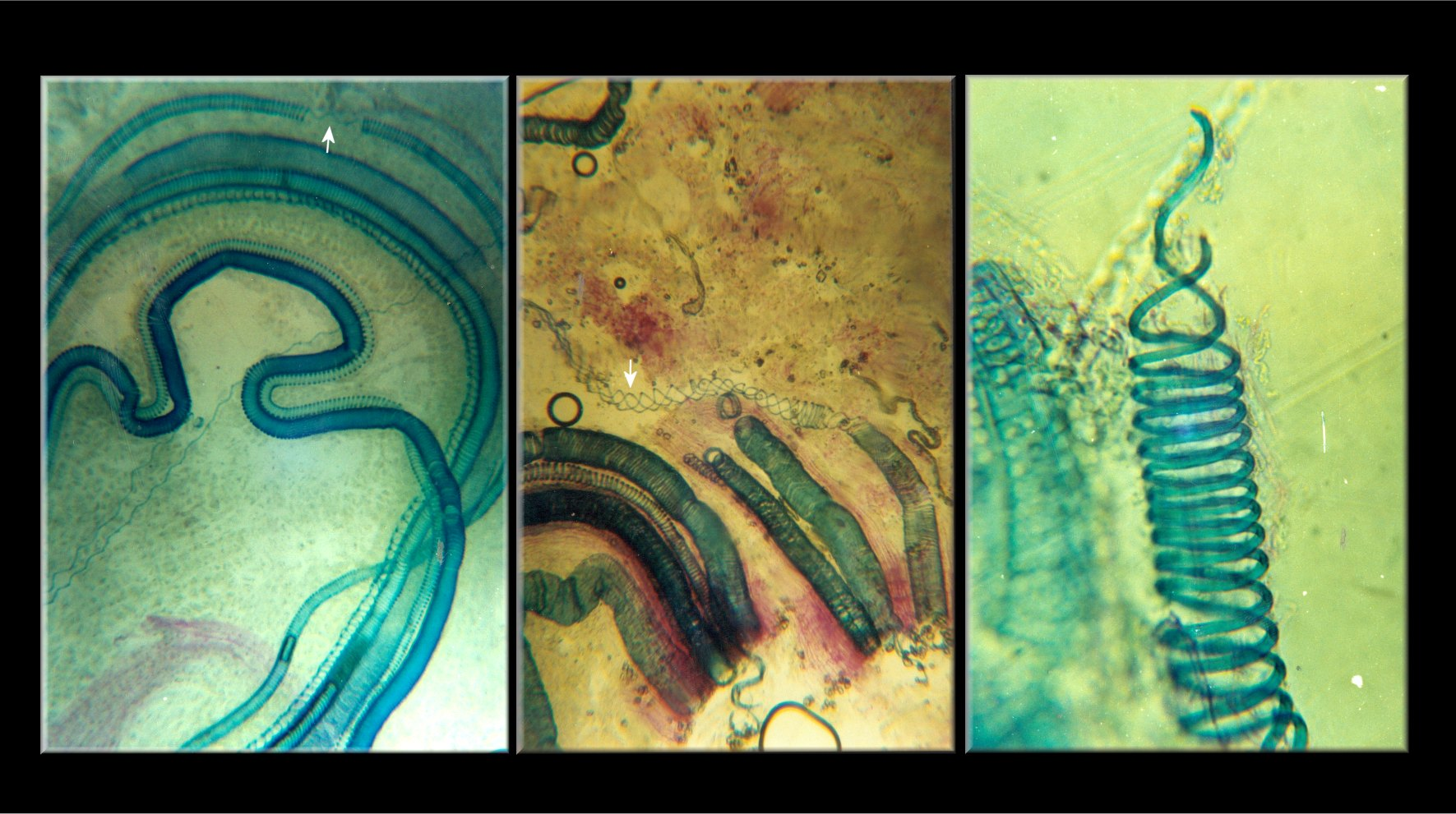 Photos of vessels at (Ficus sp). taken at sept 2002 in university of sidi bel abbes/Algeria. Shoots are treated in HCl (15N,40mn) solution,then stained with Toluidine-Bleu (5%). All photos have been taken under the Carl Zeiss microscope, by Youssef Bouterfes for the Wikipedia Project. Category:Plant images